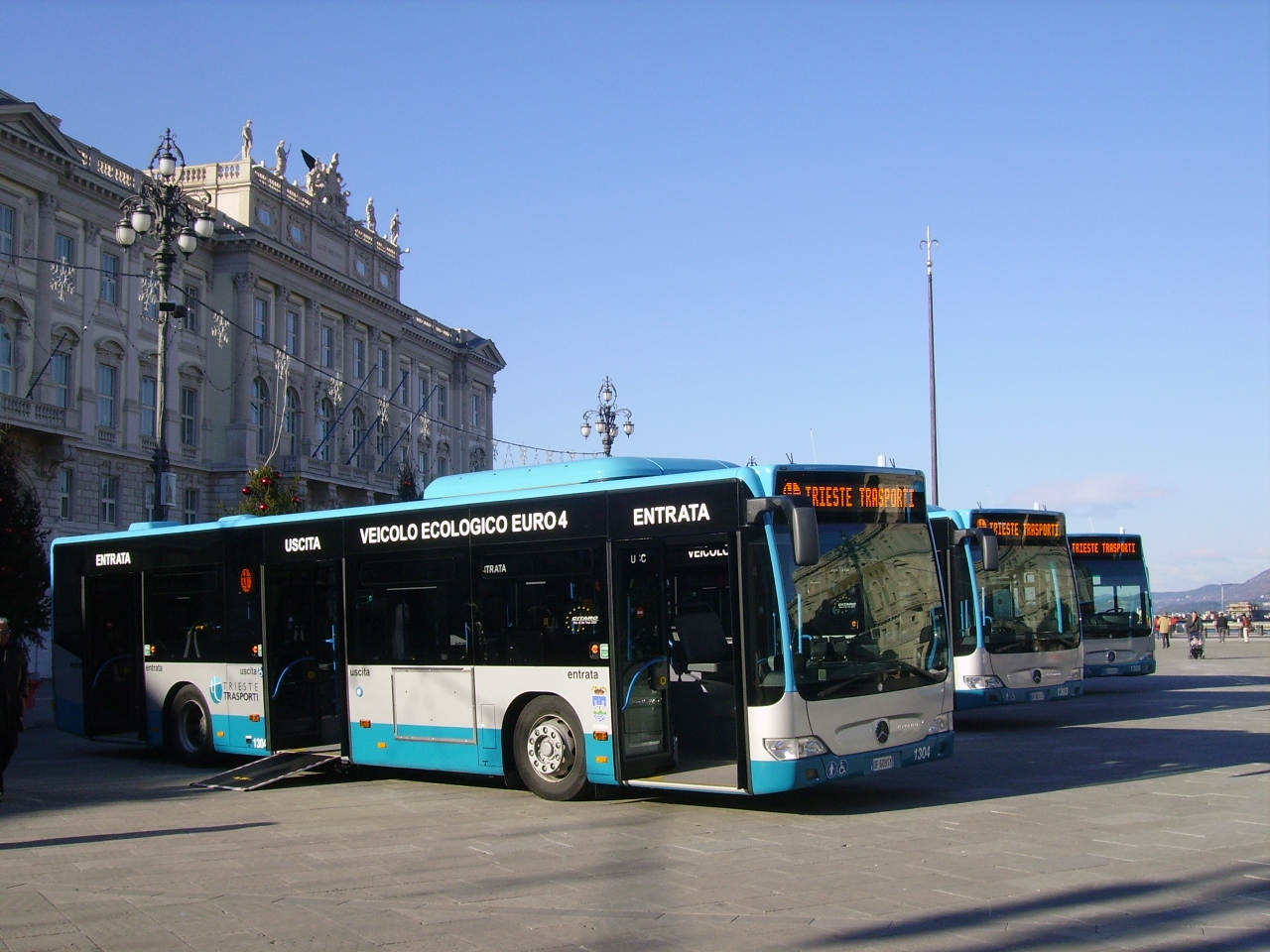 Mercedes-Benz Citaro buses of Trieste Trasporti company parked on Piazza Unità d'Italia in Trieste, Italy.